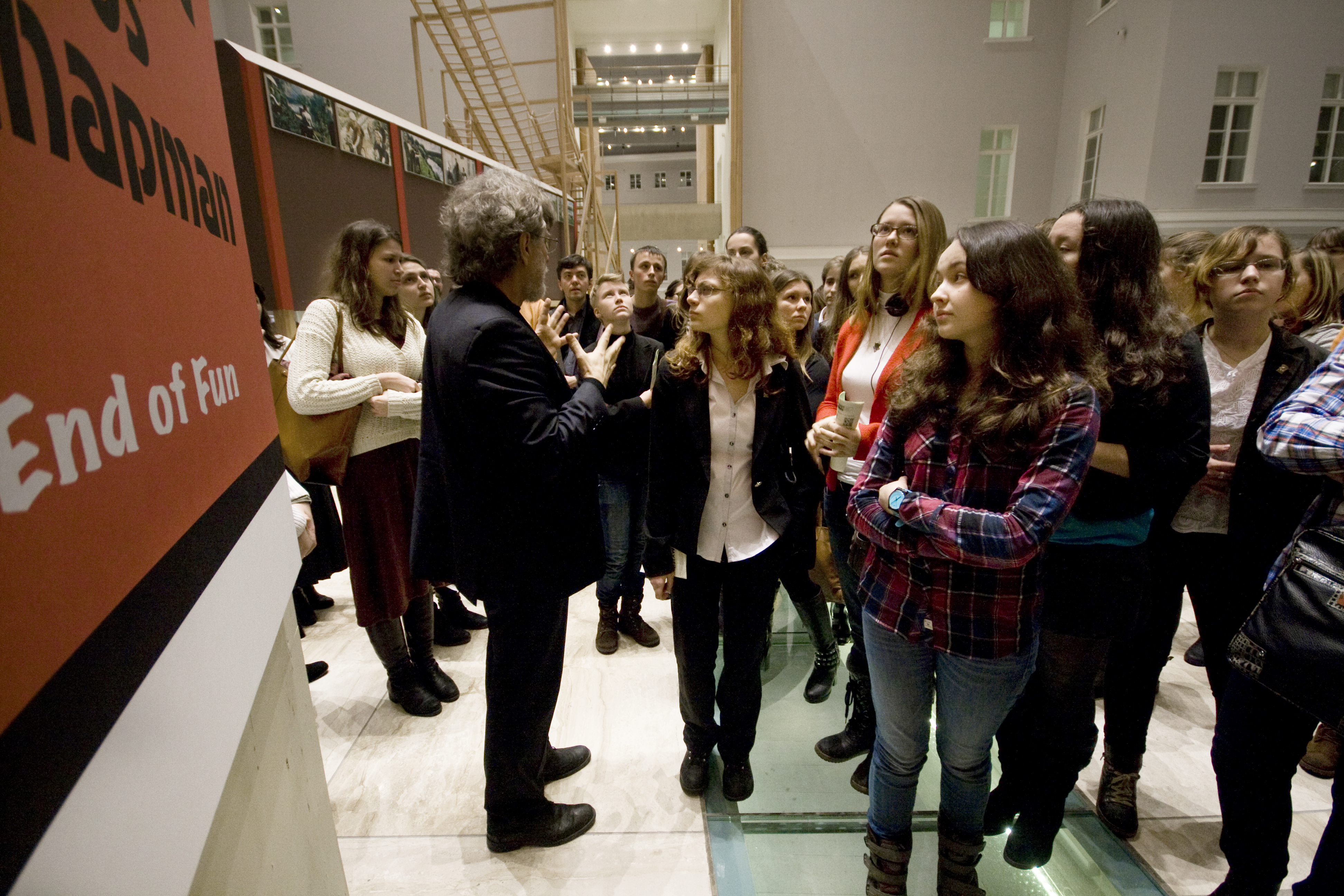 Архитектор Олег Явейн на встрече с участниками программы "Музей и музейщики"